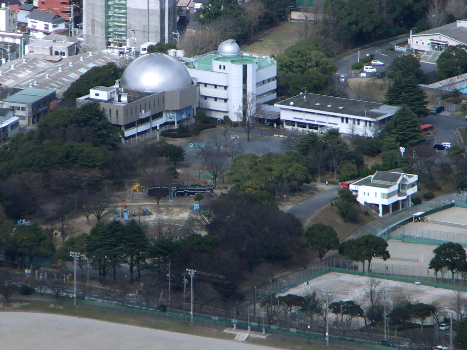 Kitakyushu Youth Museum of Culture and Science; photo taken from Mount Sarakura